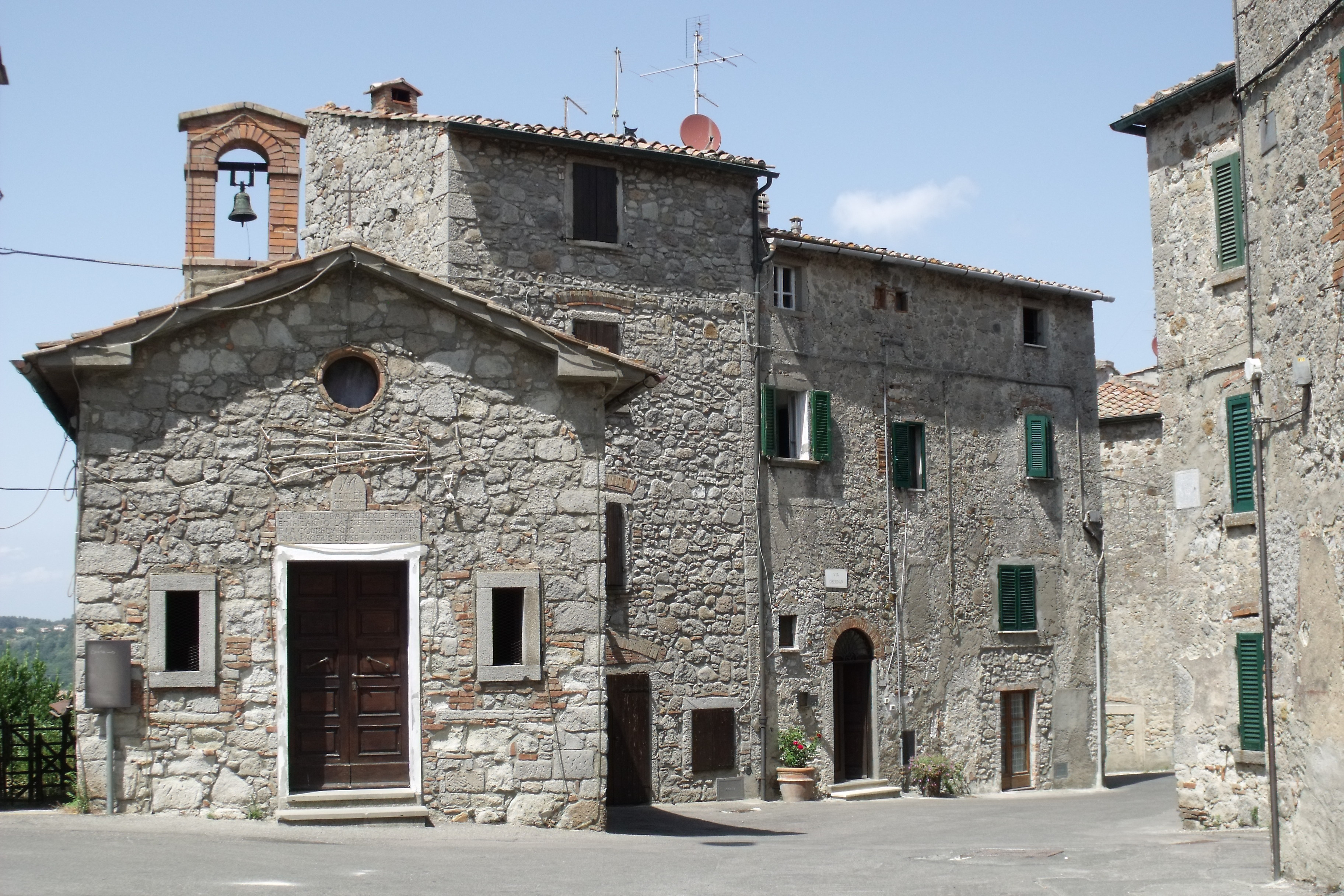 Church of Santa Maria delle Grazie in Piloni, Hamlet of Roccastrada, Maremma, Province of Grosseto, Tuscany, Italy